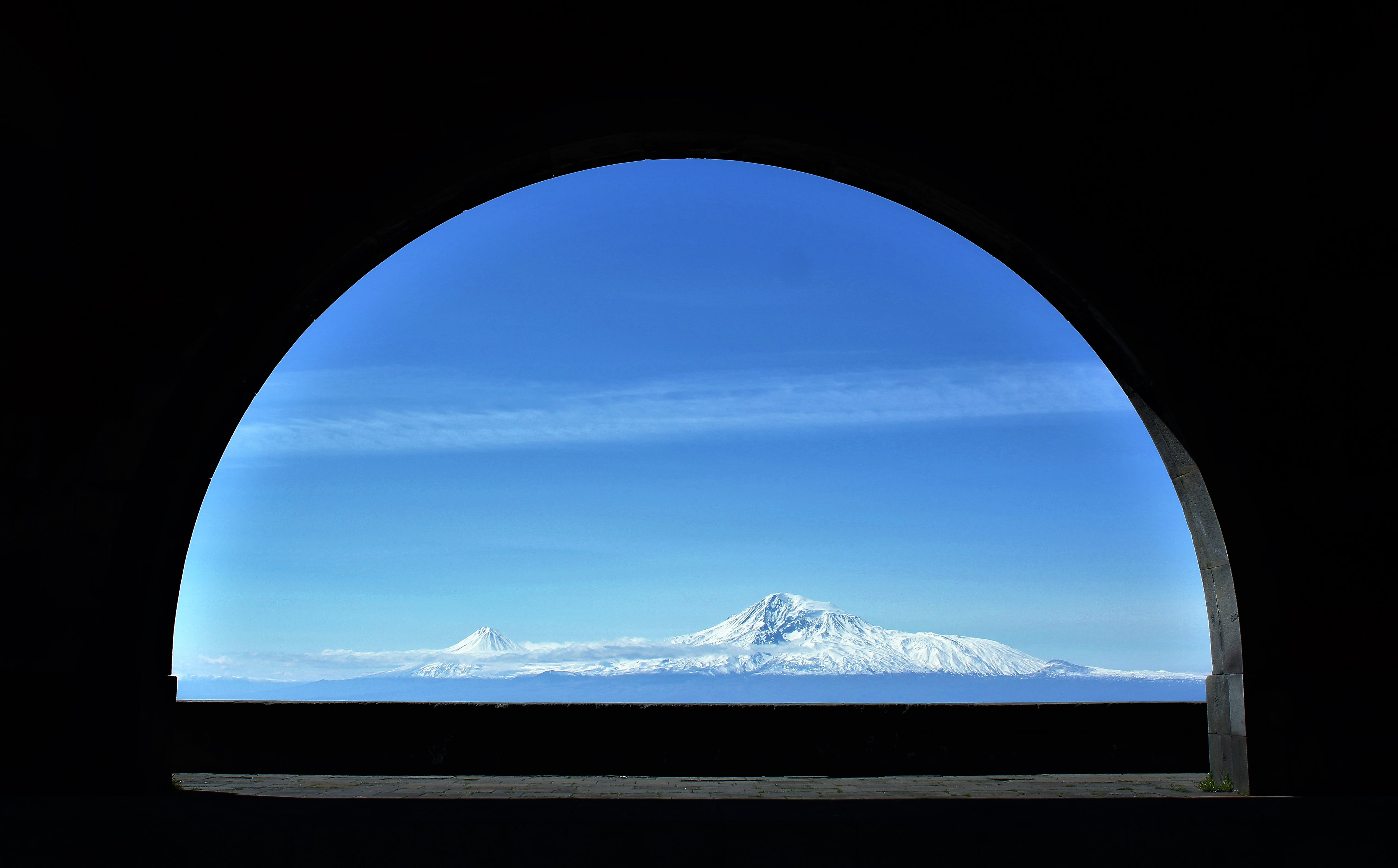 Mount Ararat from Charents' Arch, Kotayk province, Armenia